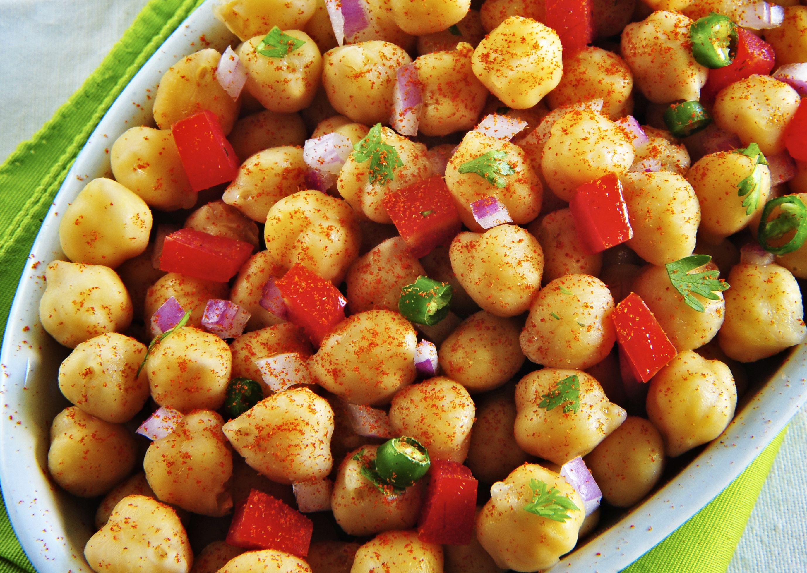 Chick pea Salad 01